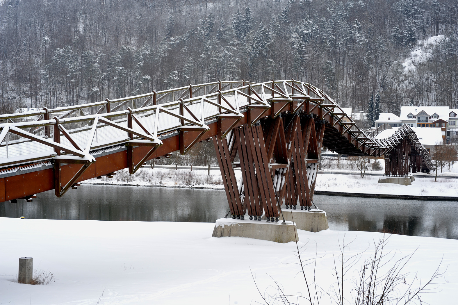 Tatzlwurm, wooden stressed ribbon bridge by R. J. Dietrich over the Altmühl near Essing; Bavaria, Germany.